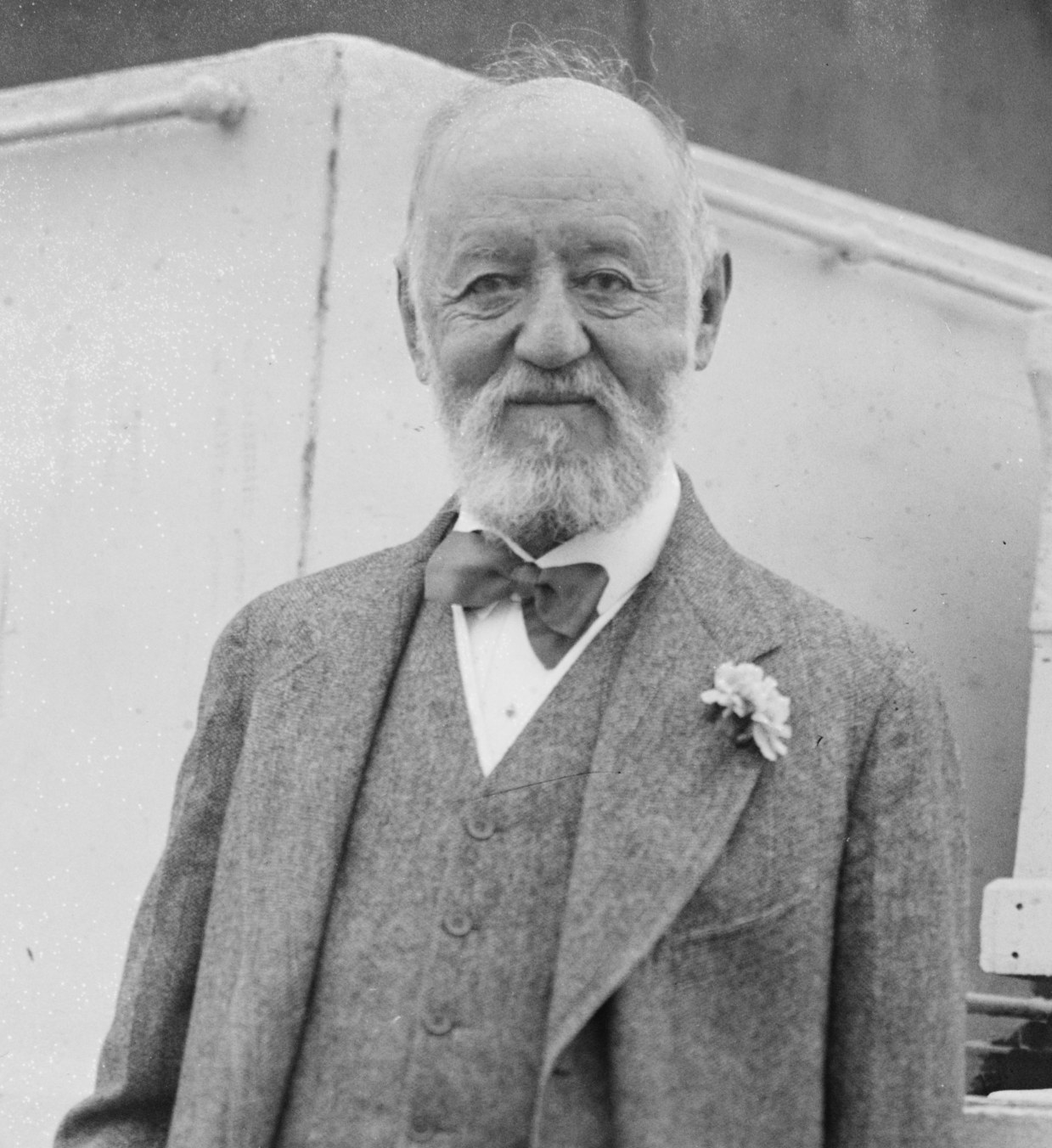 Nathan Straus on March 7, 1922